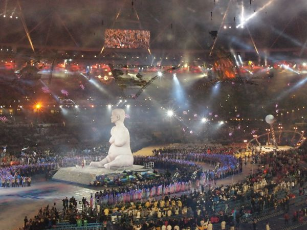 The conclusion of the opening ceremony